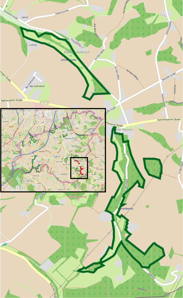 Vlotho - Nature reserve Linnenbeeke - overview map Number and borders of nature reserves are subject to frequent change. In order to facilitate reproduction of this map from openstreetmap, the following data is stored here: export boundaries: north: 52.135; west: 8.865; east: 8.89; south: 52.11; mapnik svg, scale 1:14.000 nature reserve boundary stroke weight 10.0; nature reserve stroke color: R 5, G 102, B 36; municipality border stroke weight: as found